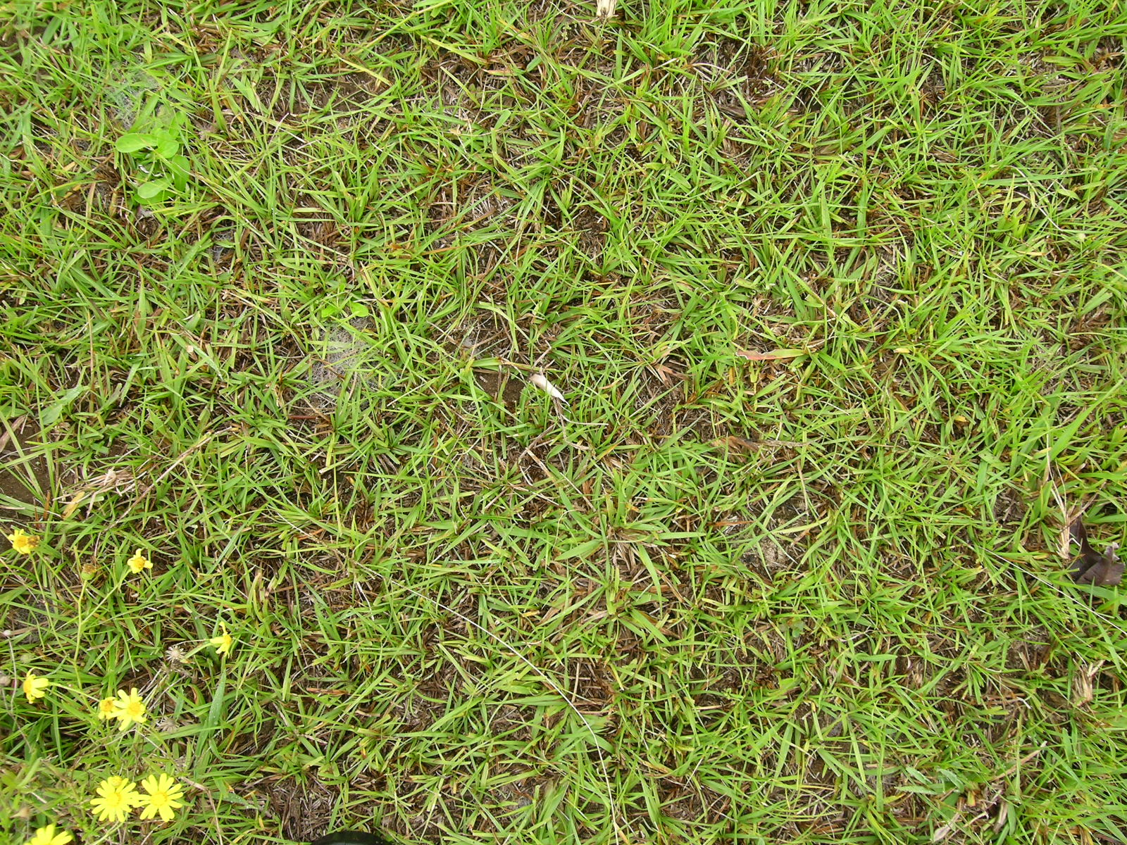 Ground cover is much sparser than many other grasses (paspalum, kikuyu, carpet grass) growing in the same area.